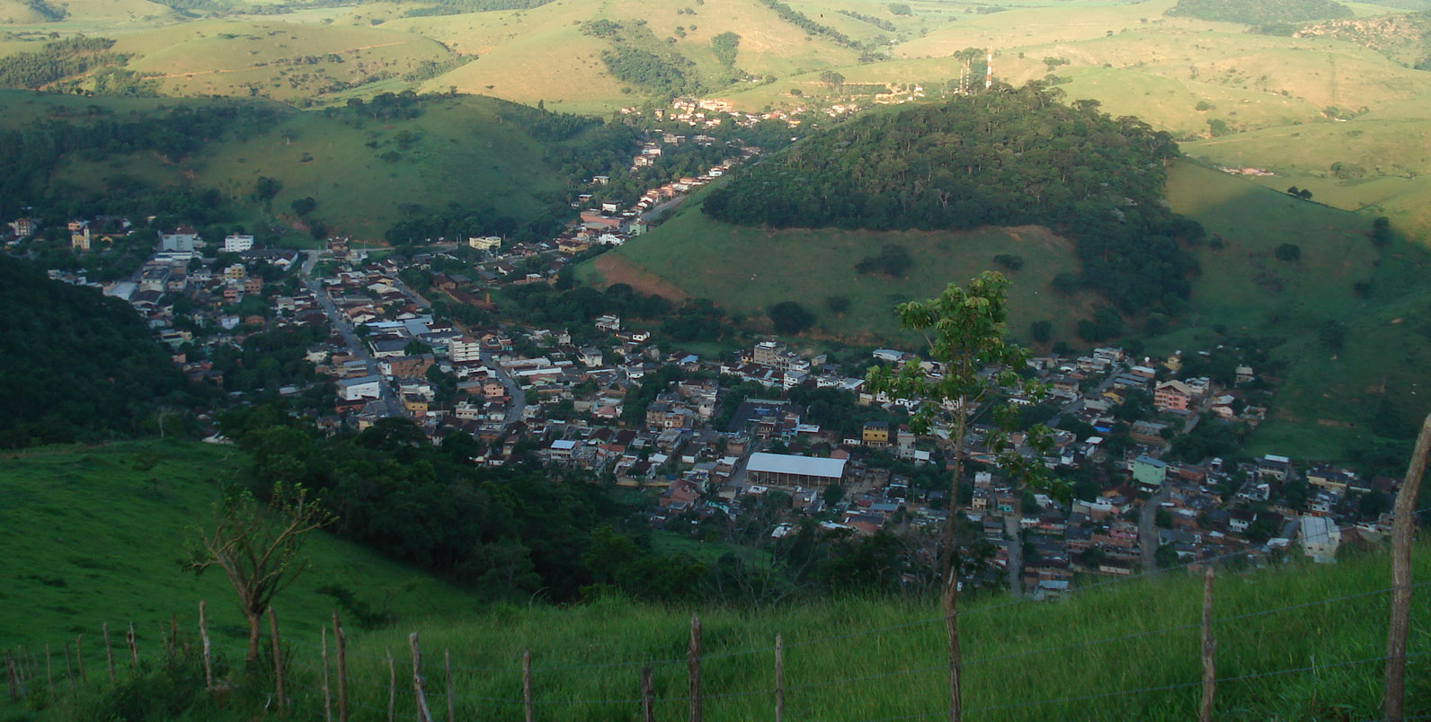 Bocaina